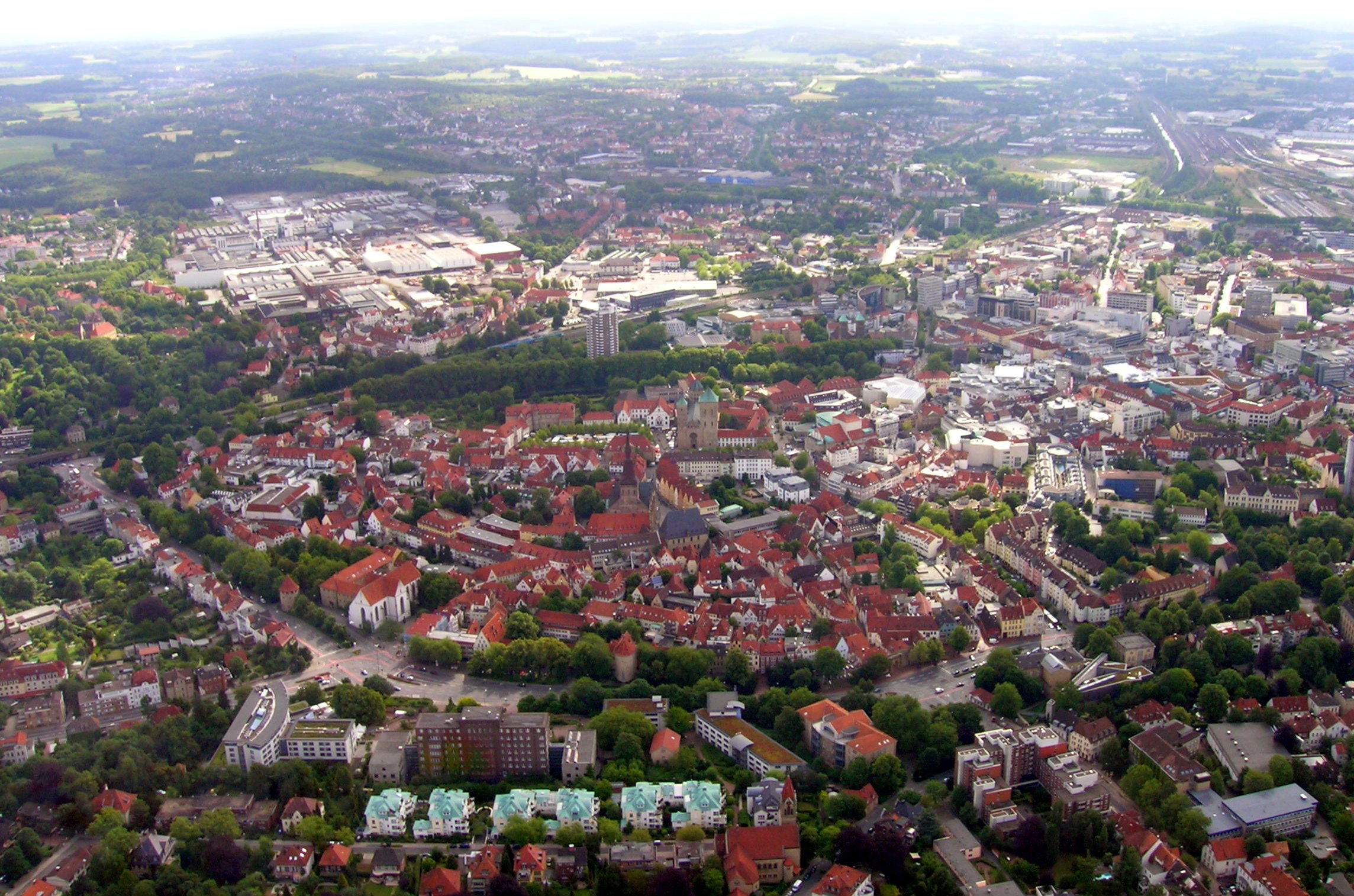 Osnabrück downtown